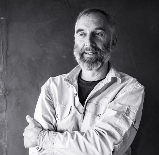 Portait Wolfgang Hemelmayr